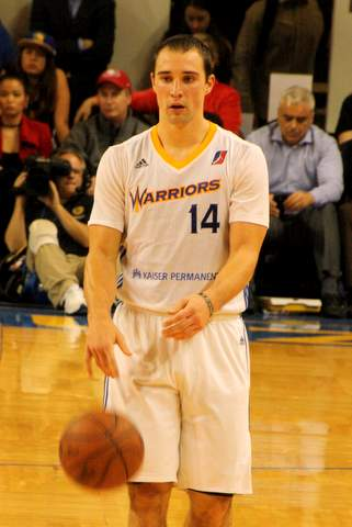 Aaron Craft of Santa Cruz Warriors